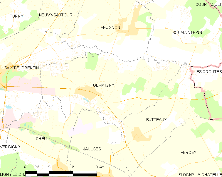 Map of French municipality Germigny